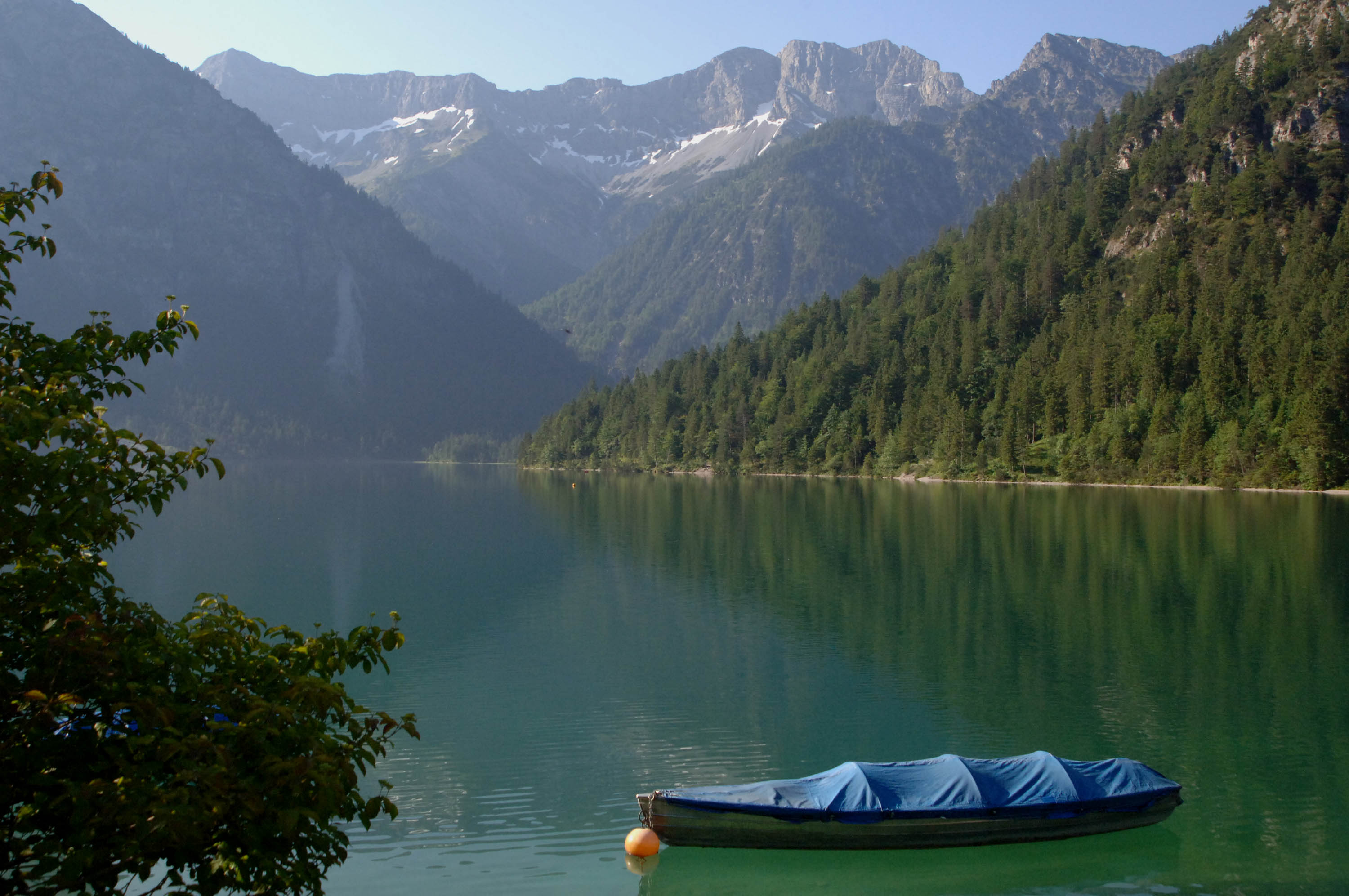 VIEW ALONG PLANSEE FROM REUTE TO LINDERHOF IN GERMANY. SEE "PLANSEE" IN WIKIPEDIA